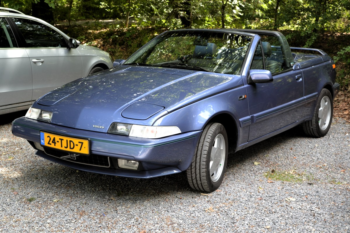 One of the three Volvo 480 convertibles known to be in existence.